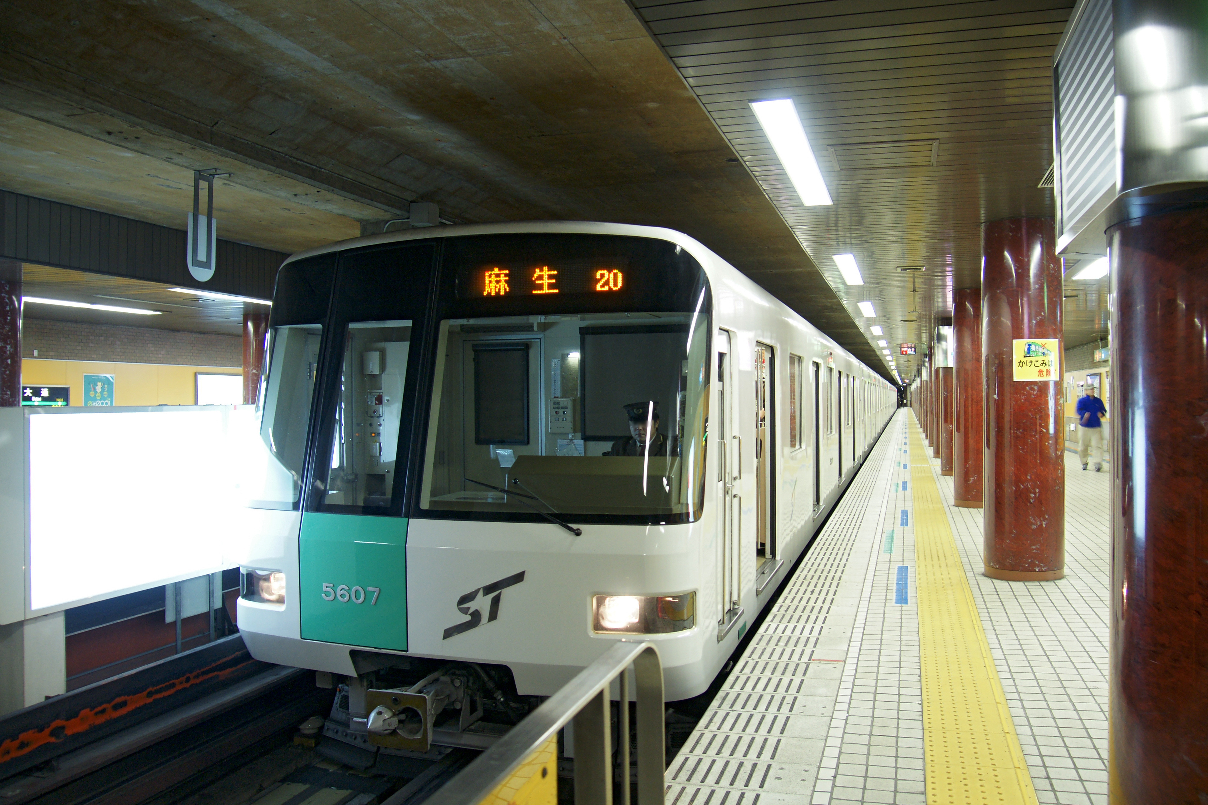 Odori Station in Sapporo, Hokkaido prefecture, Japan